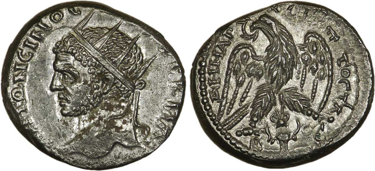 Monnaie frappée en la cité d'Alep